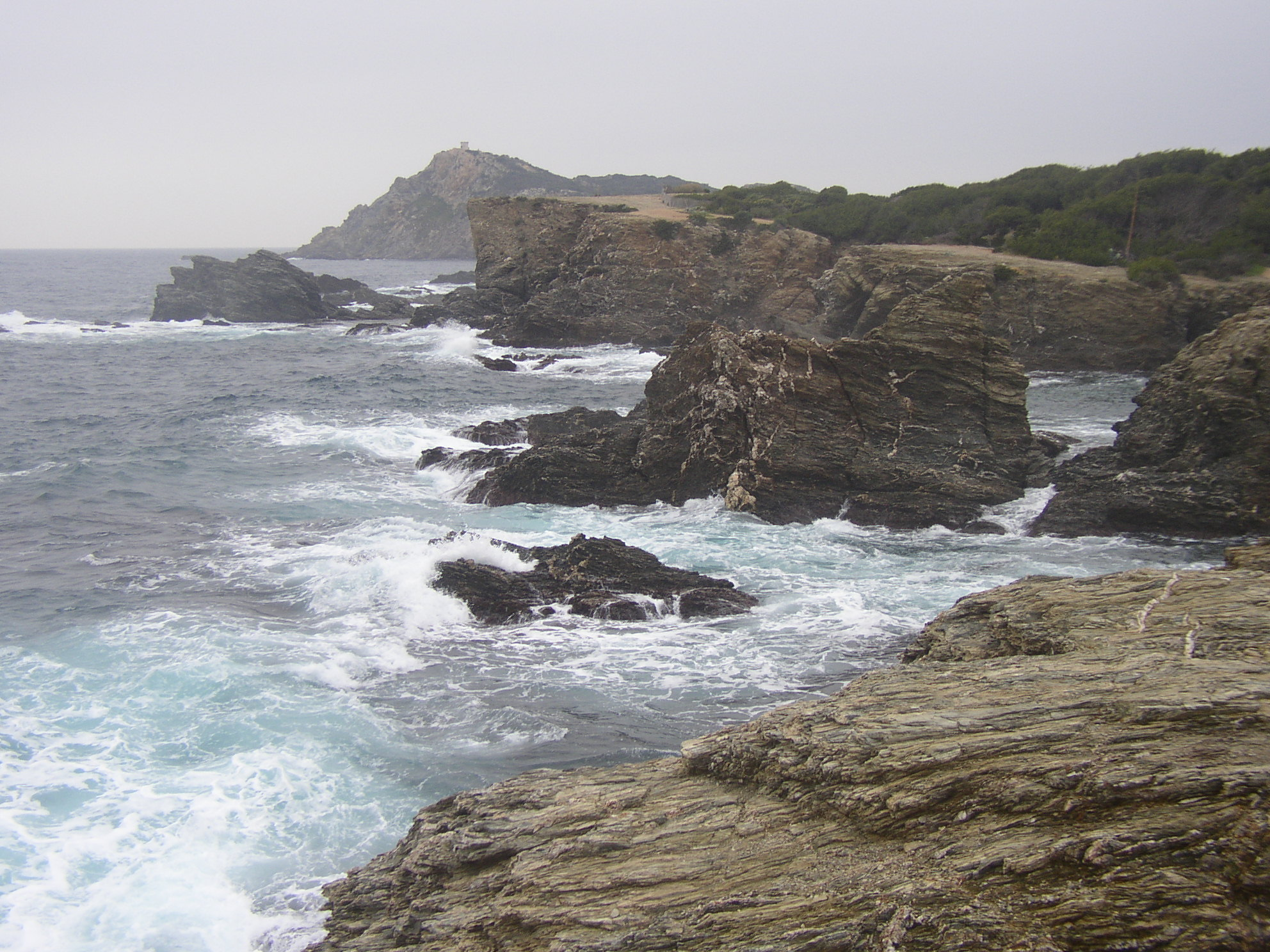 The Embiez islands, at south of the commune of Six-Fours-les-Plages, in the Var (south-east of France), in December 2005.